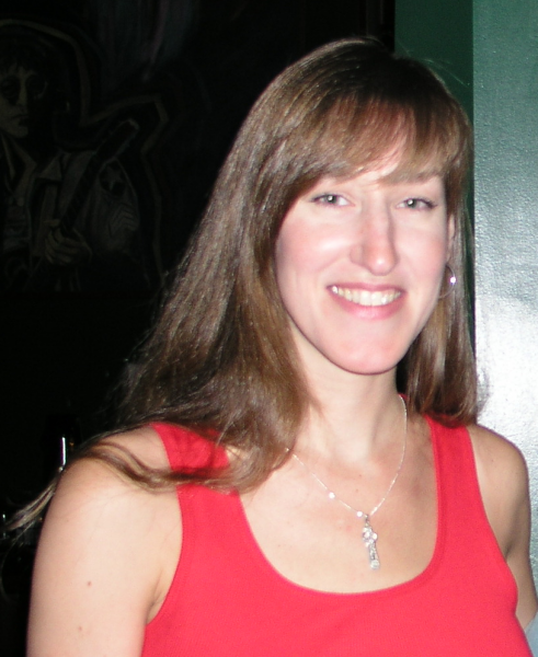 I took this photo after a concert in Chicago in 2003.